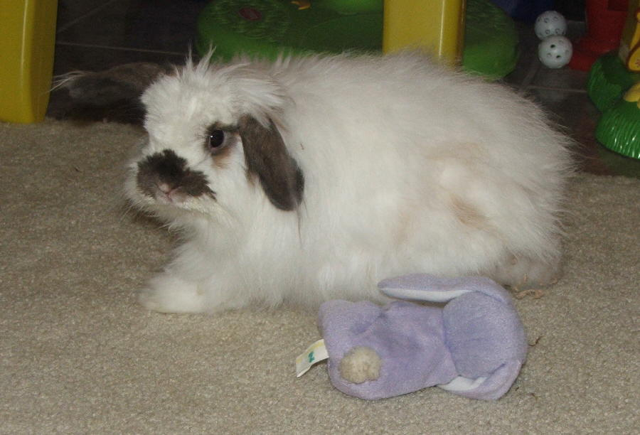 American Fuzzy Lop rabbit. White buck